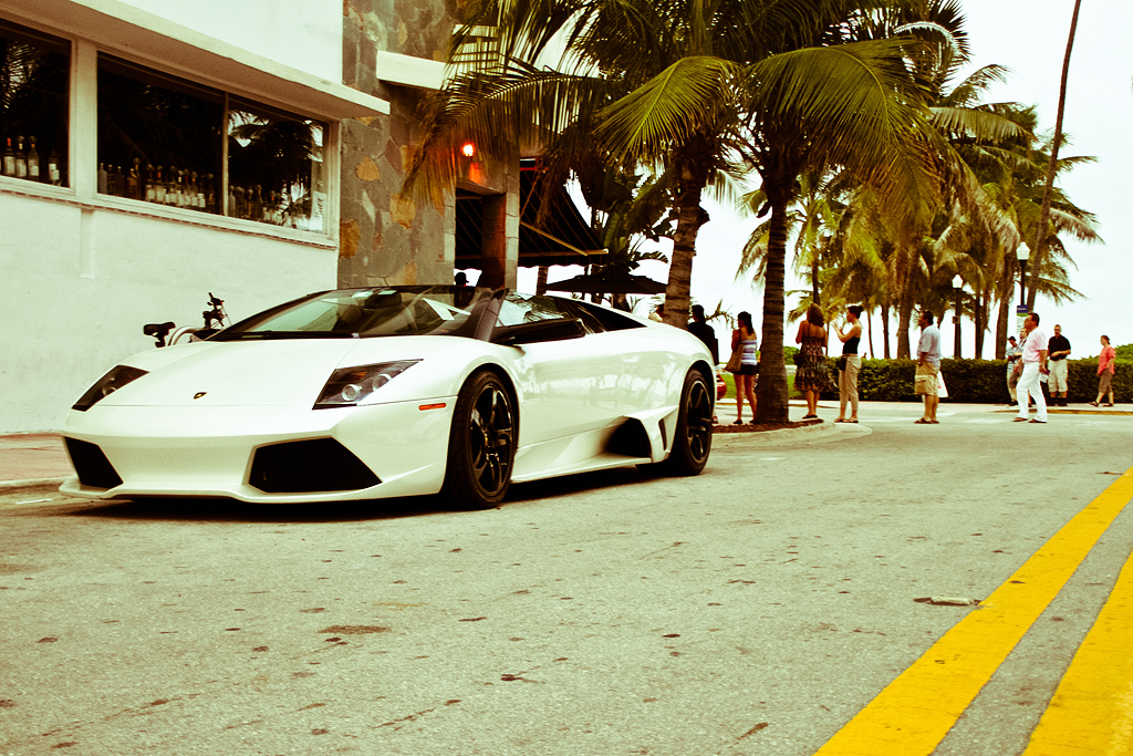 Pretty amazing ride for a 60 years old couple that was just drinking an afternoon tea...